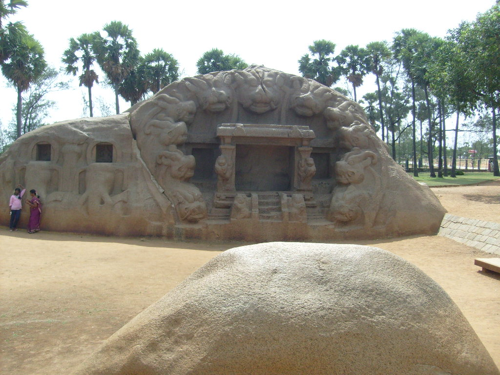 The Tiger Cave from which the Tiger Cave temple complex gets its name